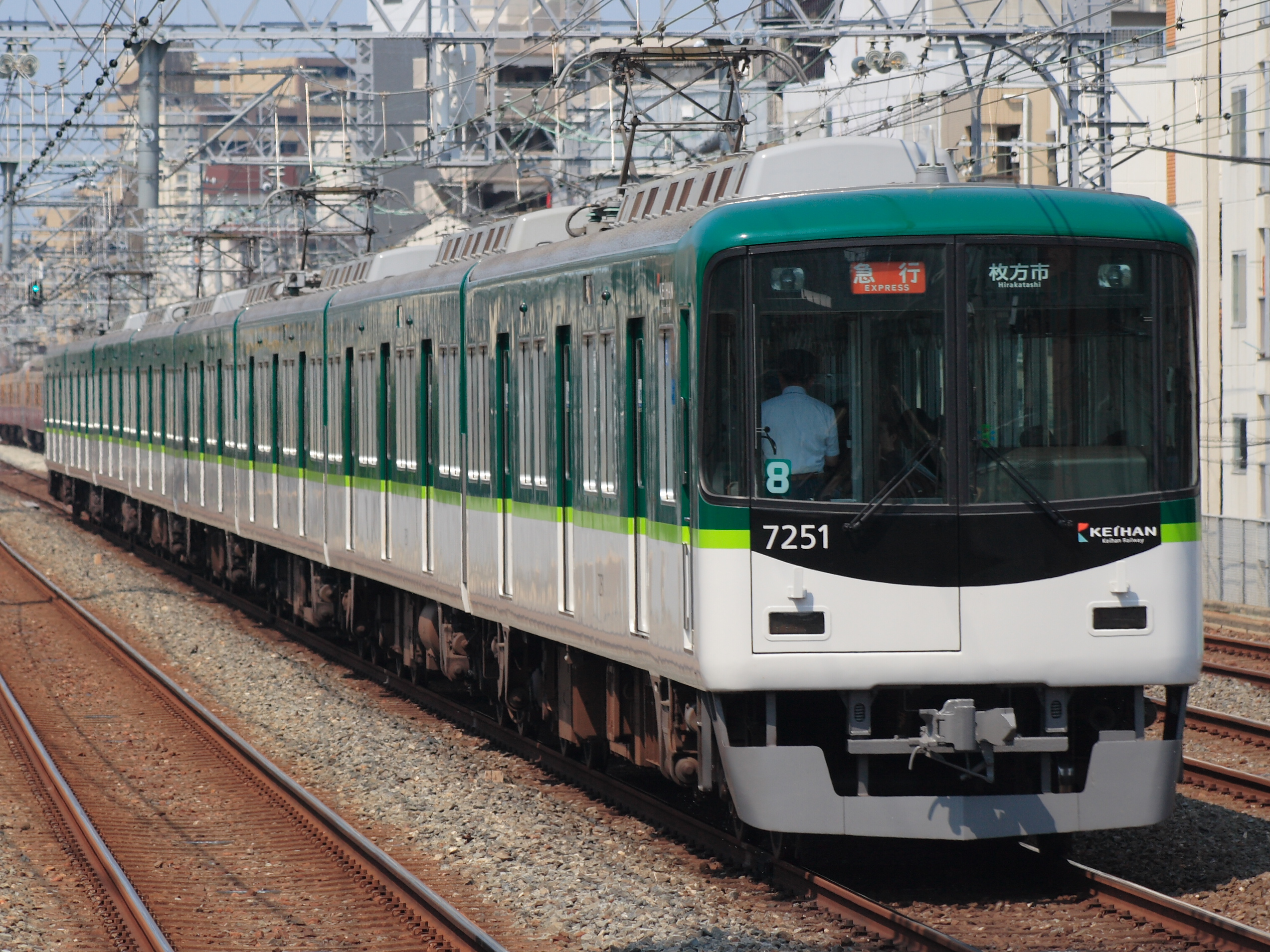 Keihan Railway 7200 series 8-car EMU set 7201 in revised livery